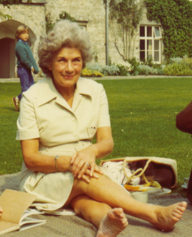 Authors Joan Aiken, Kaye Webb and artist Stuart Ray, Dartington Summer School of Music, August 1972